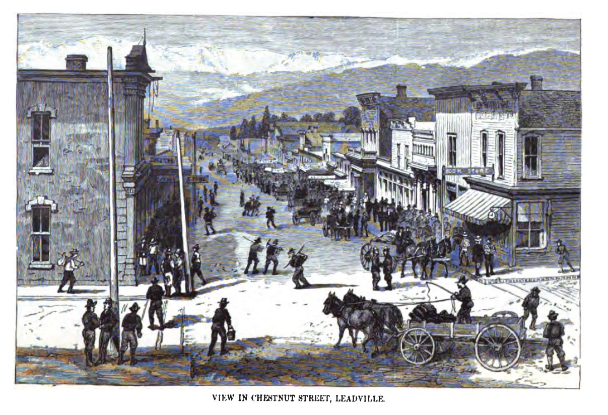 Engraving of Chestnut Street, Leadville, Colorado, circa 1880